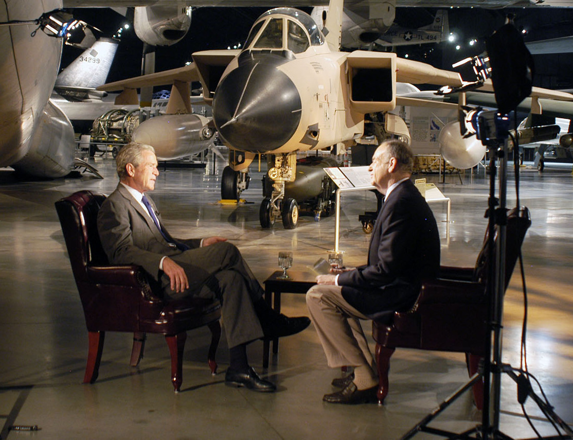 DAYTON, Ohio -- Television host, author, syndicated columnist and political commentator Bill O’Reilly filmed his show "The O’Reilly Factor" at the Air Force Museum in Dayton, Ohio, November 2010, where he did a live interview with former President George W. Bush. (U.S. Air Force photo)